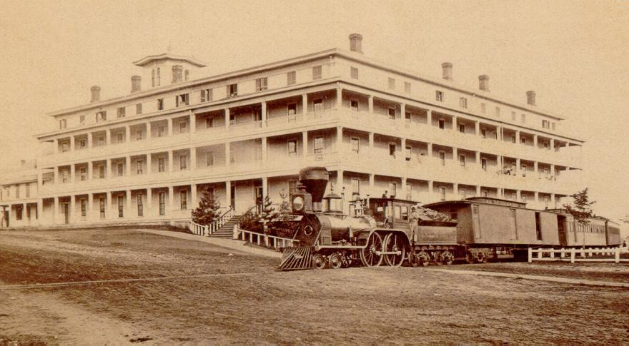 The Memphremagog House, Newport, Vermont. Built in 1838 and enlarged several times to accommodate about 400 guests, the hotel burned in 1907. The train is part of the Connecticut & Passumpsic Rivers Railroad, which owned the hotel for a time.